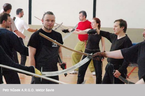 Petr Nůsek Personality rights warningAlthough this work is freely licensed or in the public domain, the person(s) shown may have rights that legally restrict certain re-uses unless those depicted consent to such uses. In these cases, a model release or other evidence of consent could protect you from infringement claims.